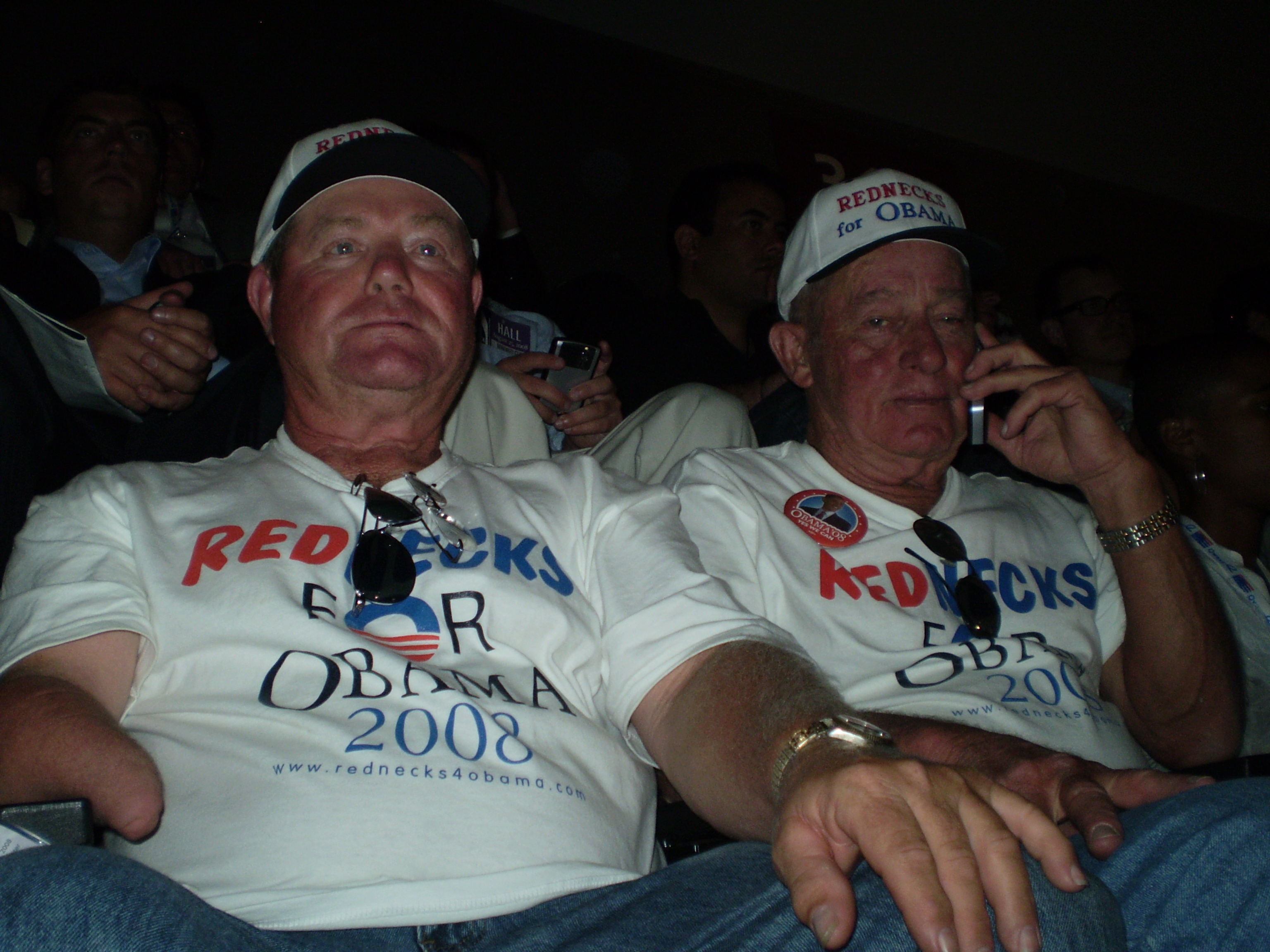 "Rednecks for Obama" leaders Tony Viessman and Les Spencer at 2008 Democratic National Convention listening to Michelle Obama speak